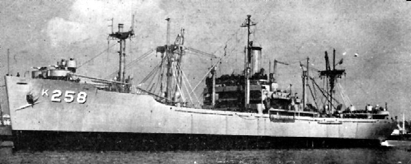 The United States Navy cargo ship USS Antares (AK-258)